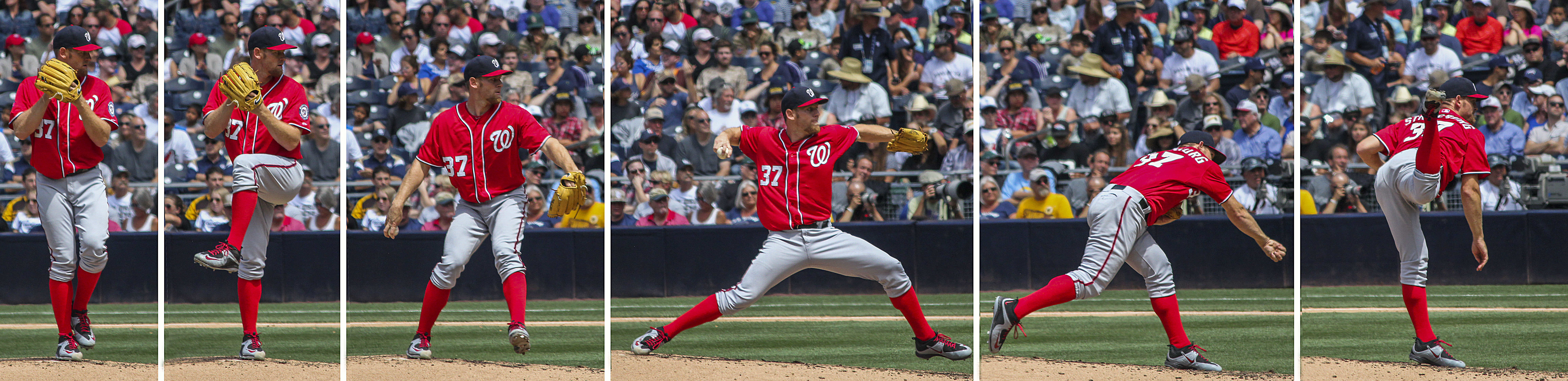 Stephen Strasburg pitching motion 2015